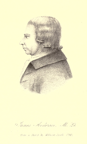 Engraving, printed in 1844, of James Anderson from a sketch by William Smith in 1799